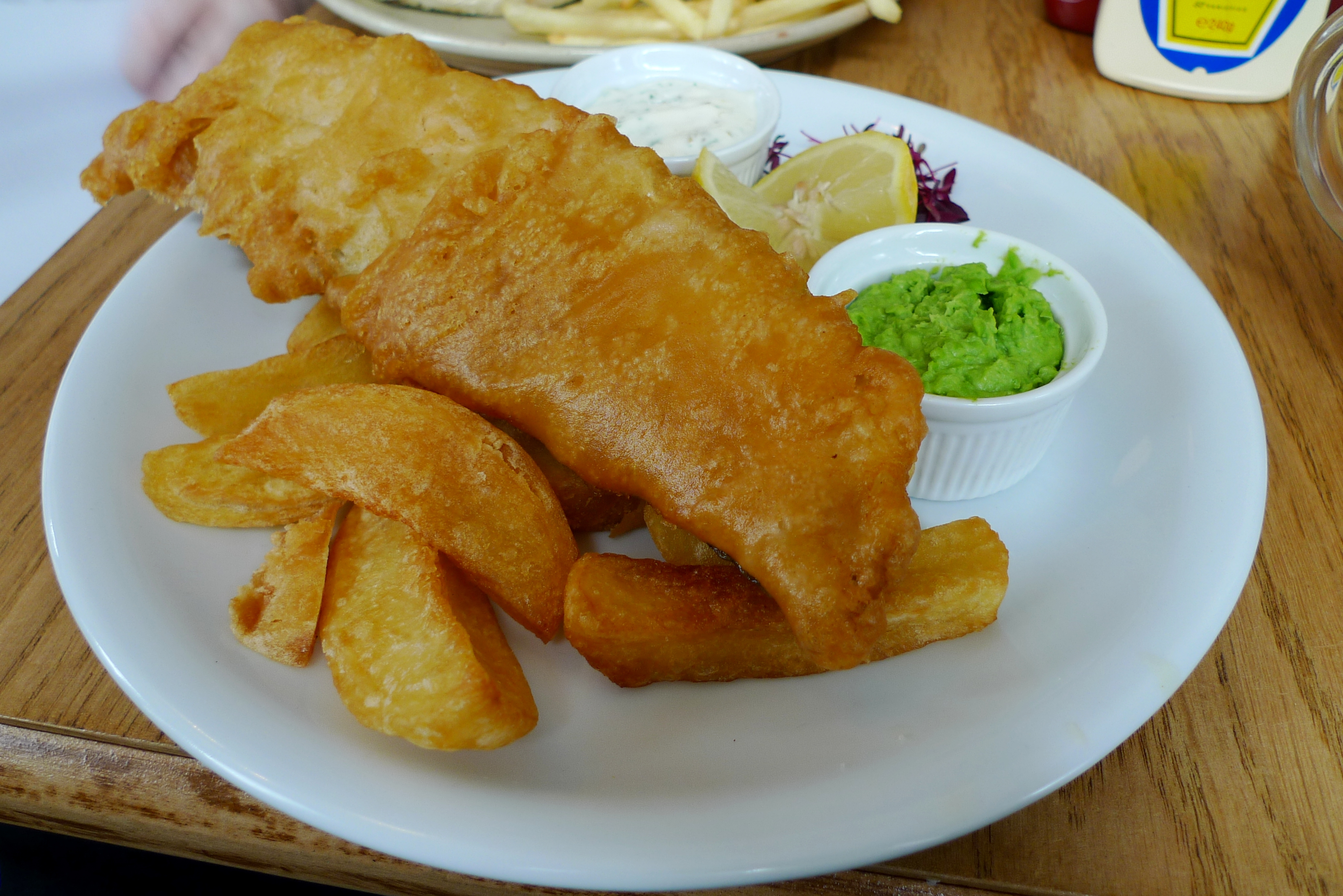 The beer-battered fish and chips. They were good and chunky, but if anything a little bit *too* deep-fried. At The Brownswood, Green Lanes.